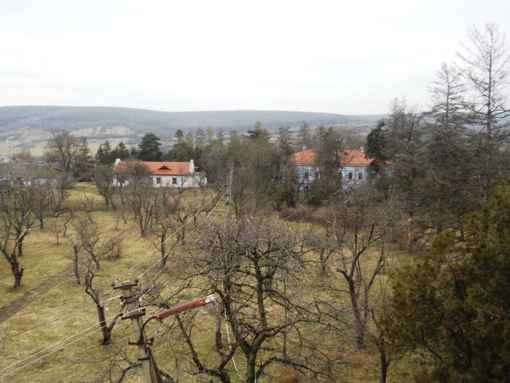 Image of the Balioz mansion in Ivancea, Orhei District, Republic of Moldova